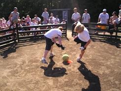 A wooden, octagonal Ga-ga pit in Bennington, Indiana At Camp Livingston. Personal photo.